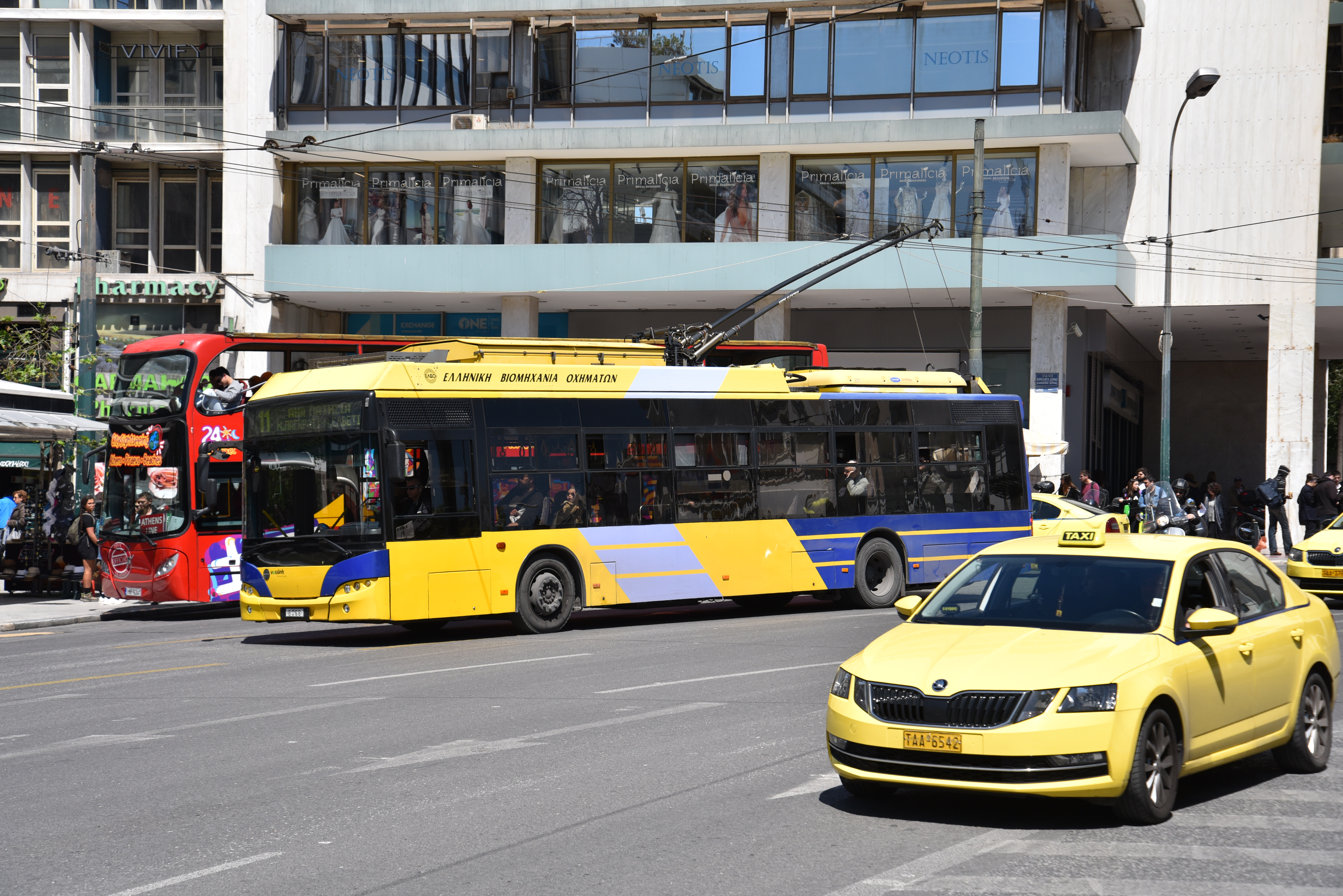 An OSY Neoplan trolleybus, no. 8068, in Syntagma Square, Athens, with a Škoda Octavia taxi at right